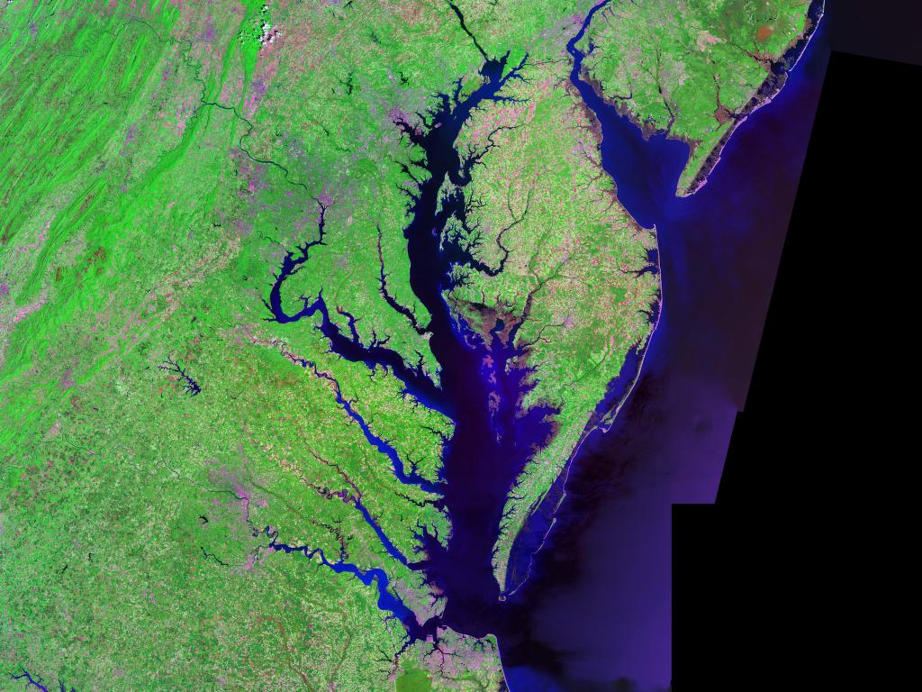 Satellite (Landsat) picture of Chesapeake Bay (center) and Delaware Bay (upper right) - and Atlantic coast of the central-eastern United States.